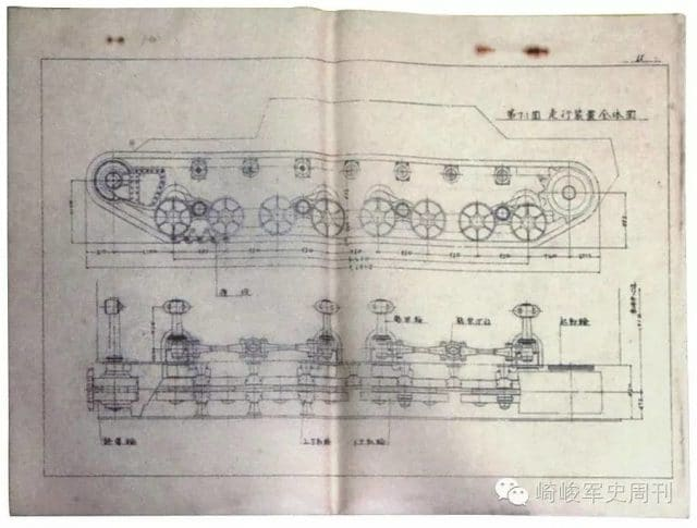 A technical diagram illustrating the suspension of the O-I super heavy tank